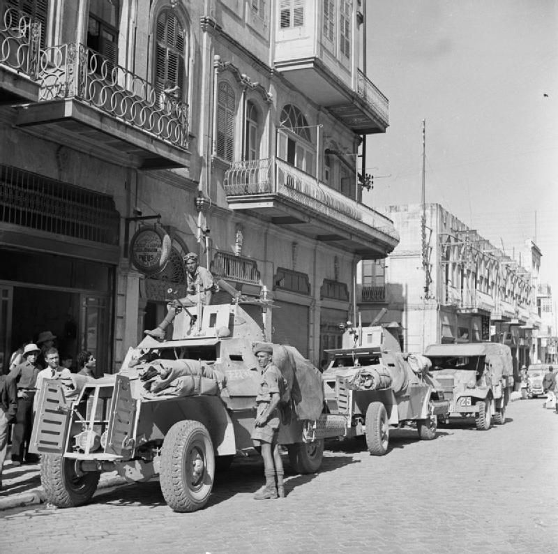 The British Army in the Middle East 1941 Marmon-Herrington armoured cars in the streets of Aleppo, 22 July 1941.